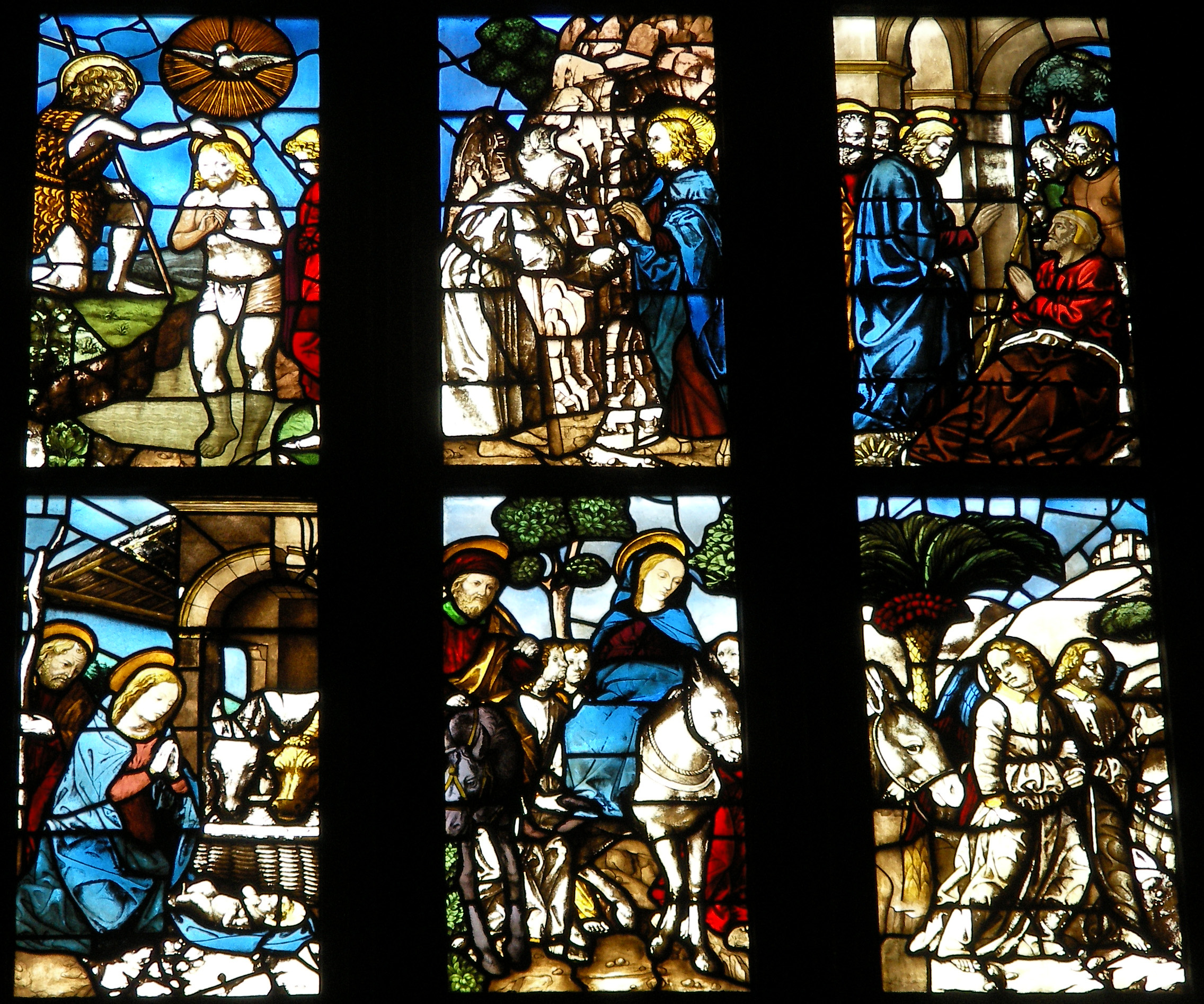 Duomo di Milano: detail from 5th window in the right aisle, the only remaining original one